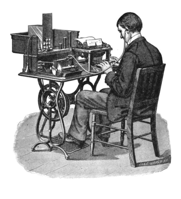 Drawing of a typist transcribing dictation using an early wax cylinder phonograph. Although the phonograph was first invented by Thomas A. Edison, the source text says this was a machine called the 'G', invented by Alexander Graham Bell, Chichester A. Bell, and Sumner Tainter. The typist pumps the treadle with his foot, turning the cylinder to play back the recording, and listens to it using 'stethoscope' type earphones. Extra wax cylinders, and a funnel-like mouthpiece used to record dictation, are seen on the desk. Alterations to image: removed caption, which read, "The Gramophone used in transcribing". The device shown is technically not a gramophone, which was a disk recording device. .